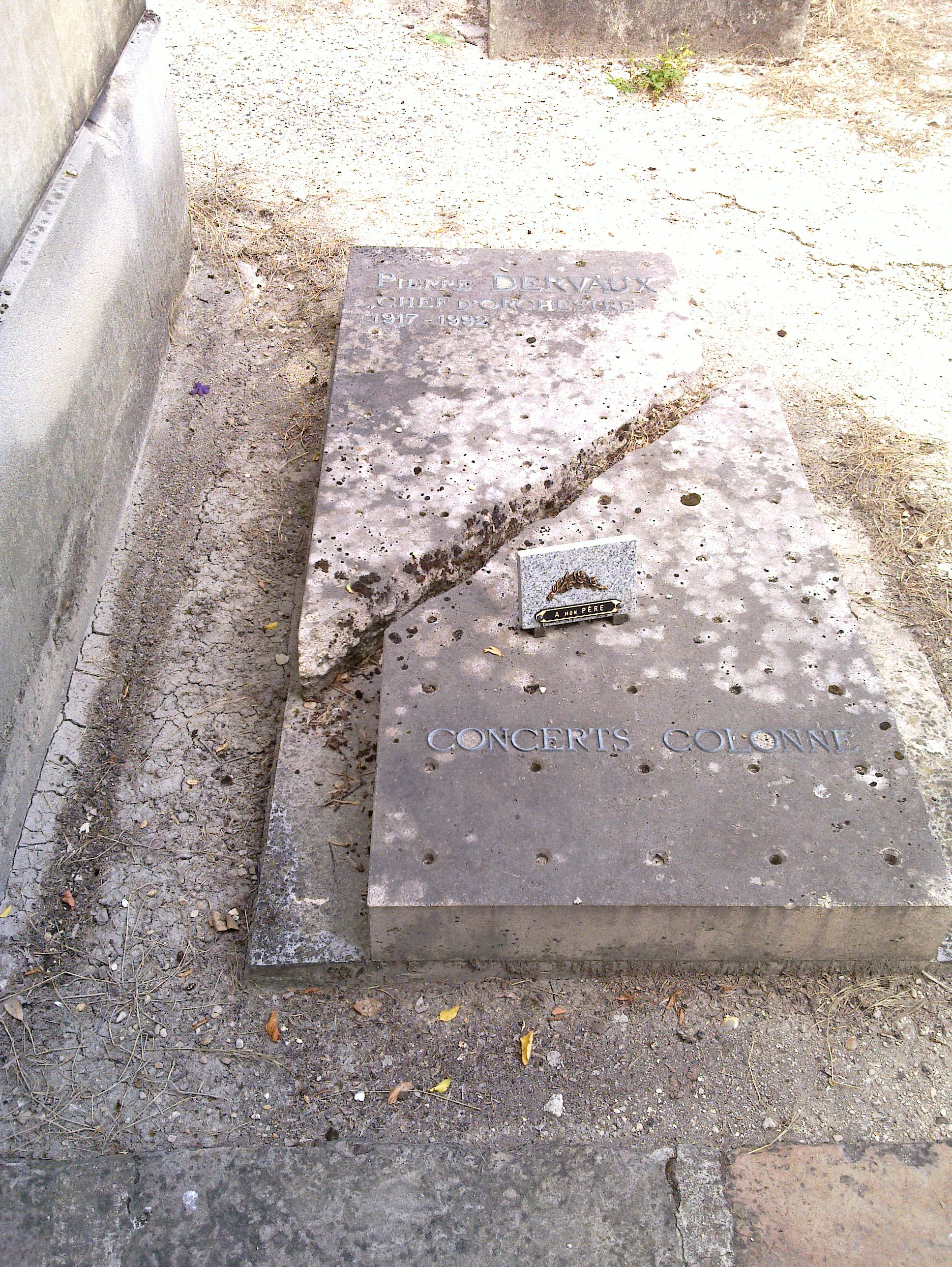 Pierre Dervaux' grave, Père-Lachaise, Paris